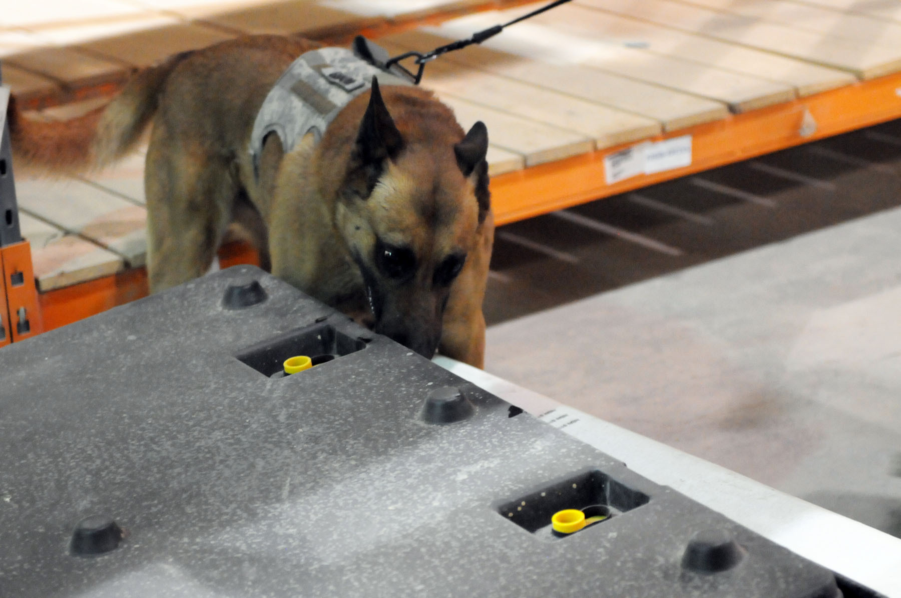 During a training exercise at Victory Base Complex April 5, patrol explosives detection dog Brandon double checks a CONEX insert lying in an aisle. "He's very thorough," said Sgt. Kyle Louks, Brandon's handler and teammate since May 2009. The team is attached to United States Division-Center but is part of 252nd Military Police Detachment from Fort Leonard Wood, Mo.